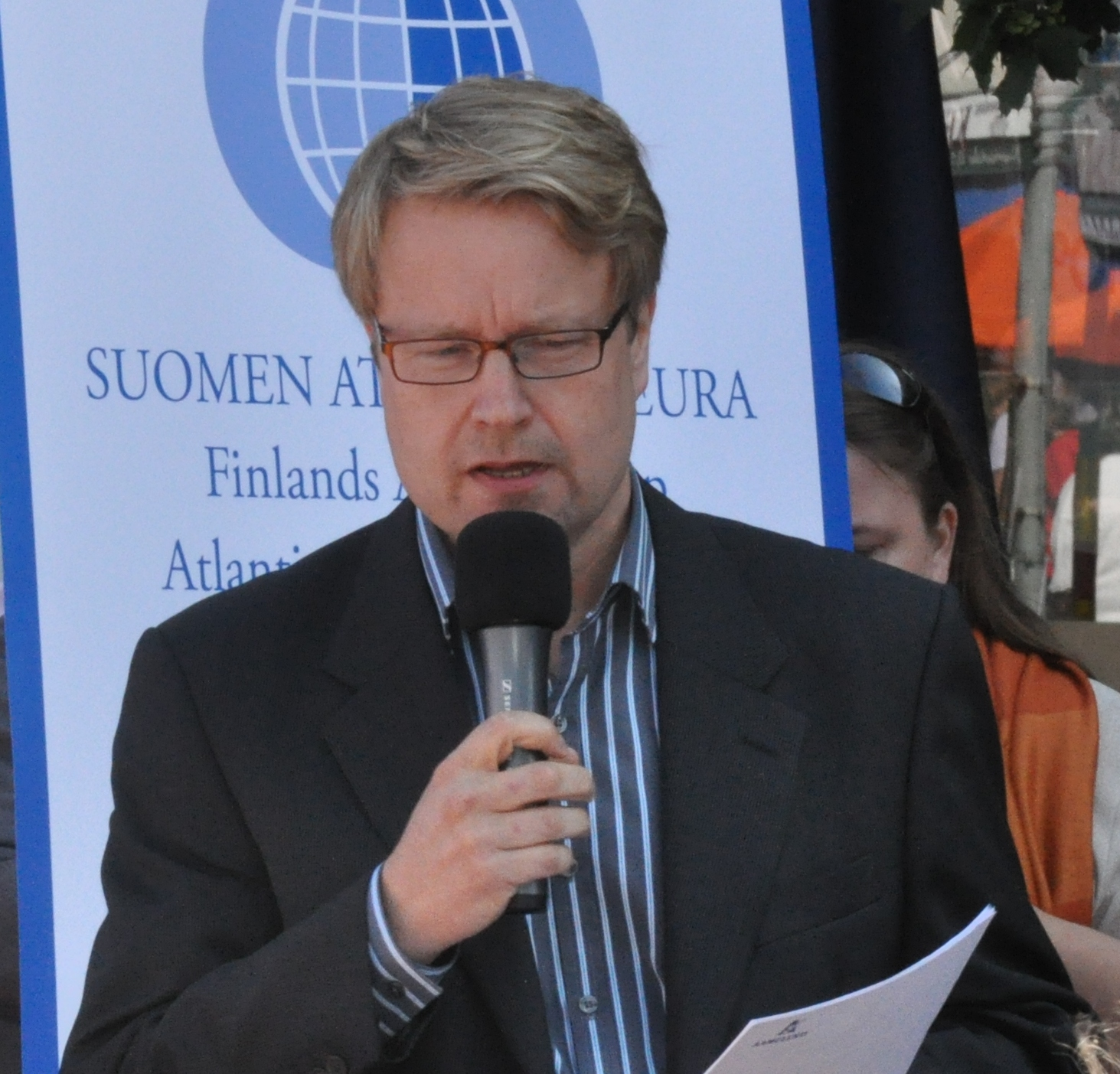 Matti Apunen, editor of the Finnish newspaper Aamulehti, at the SuomiAreena 2009 event in Pori, Finland.